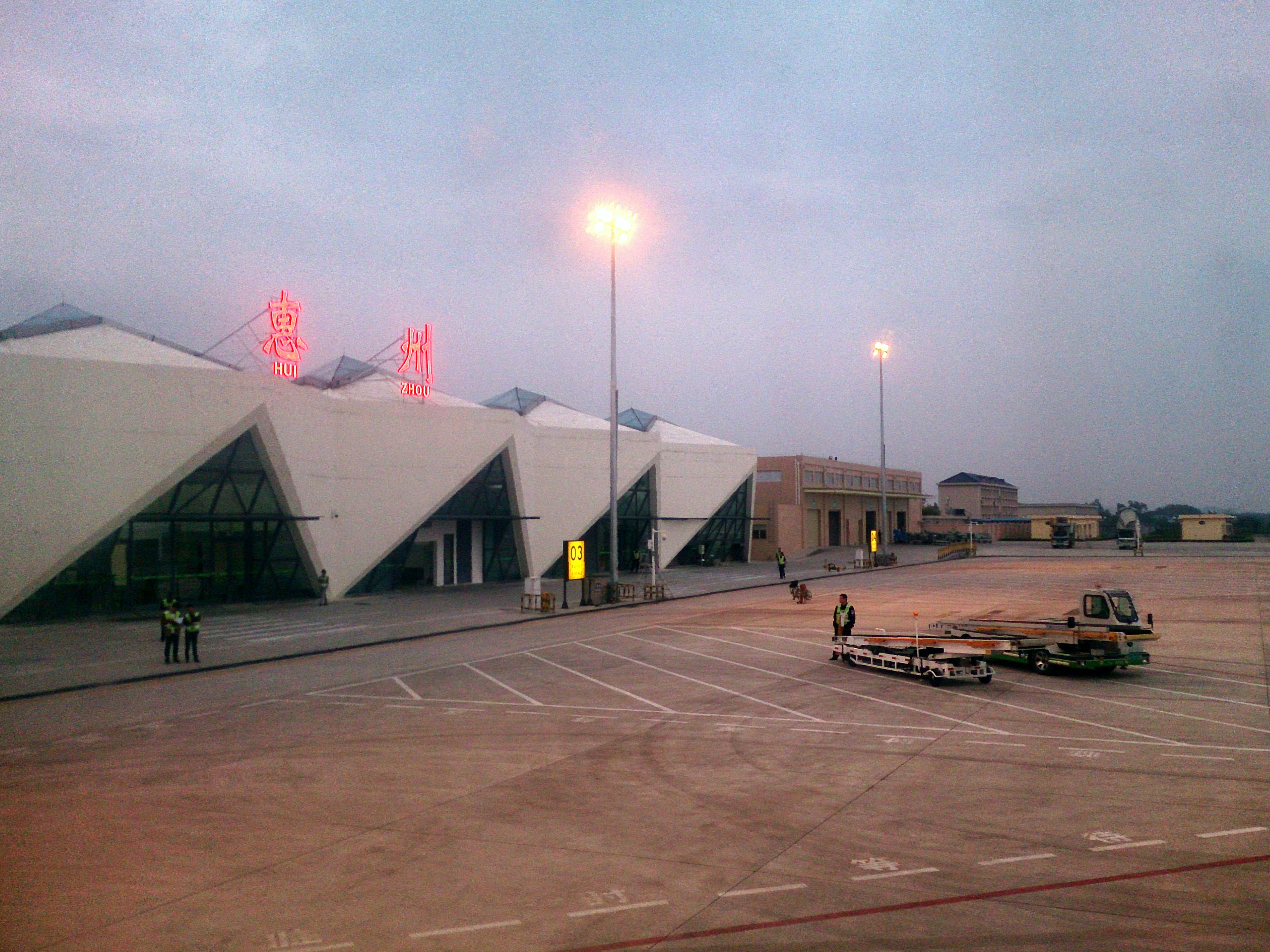 惠州平潭机场 - Huizhou Pingtan Airport - 2016.03